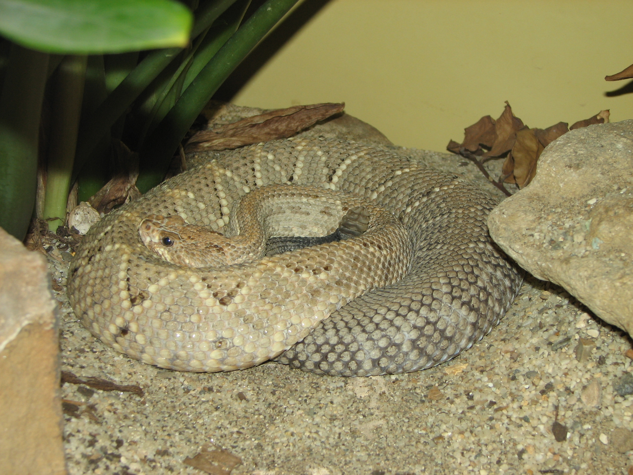 Crotalus unicolor - Aruba Island Rattlesnake